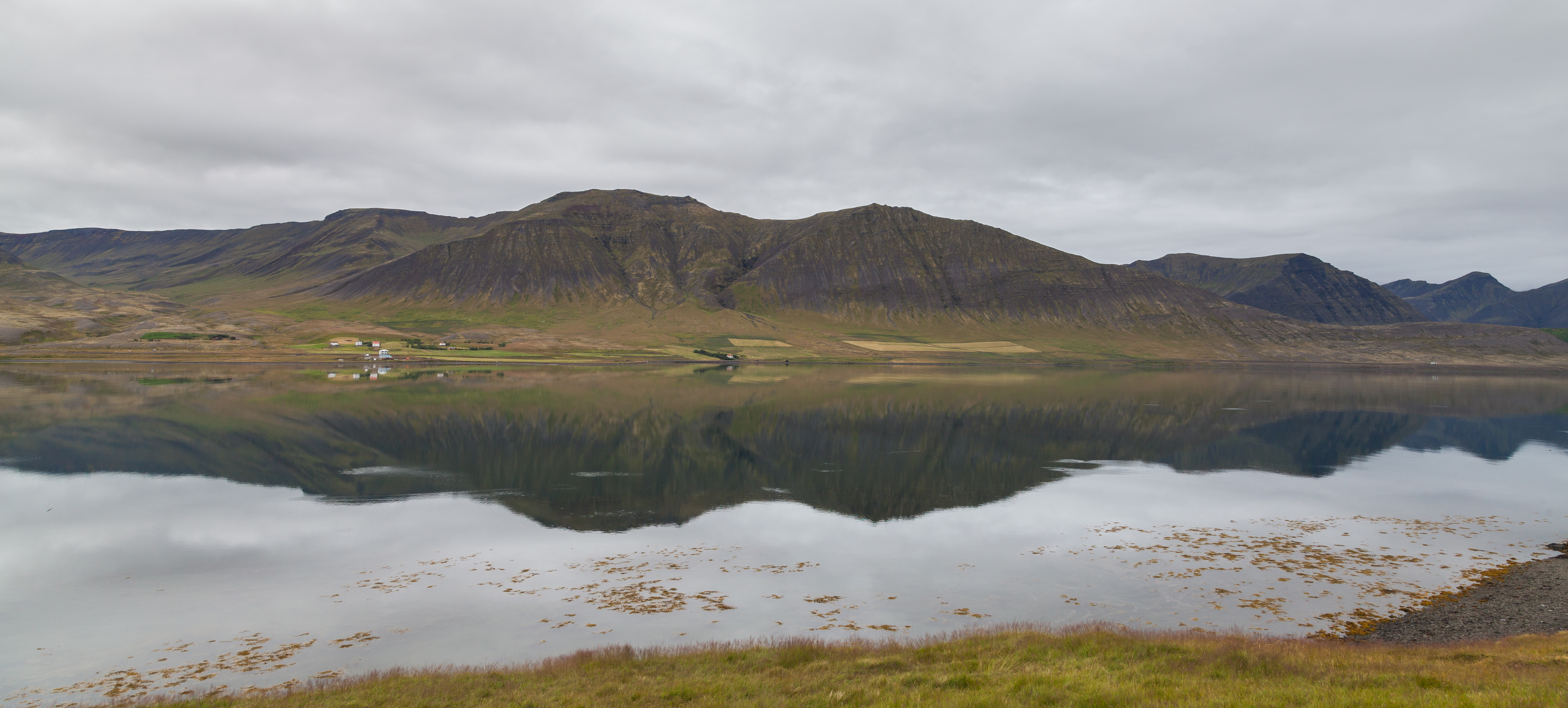 Dýrafjörður, Vestfirðir, Iceland